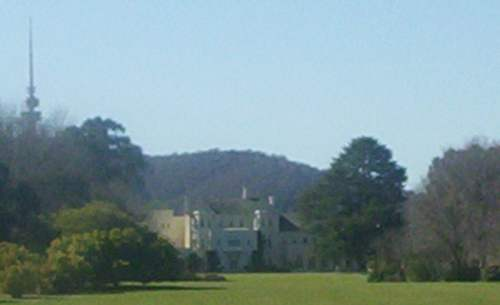 the Government House from lookout on Lady Denman Drive in Yarralumla, ACT (Australia). Black mountain tower on back left.